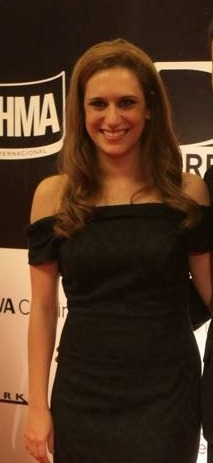 Peruvian actress Gisela Ponce de León in the avant premiere of Peruvian film Asu Mare, 10 April 2013, Jockey Plaza.